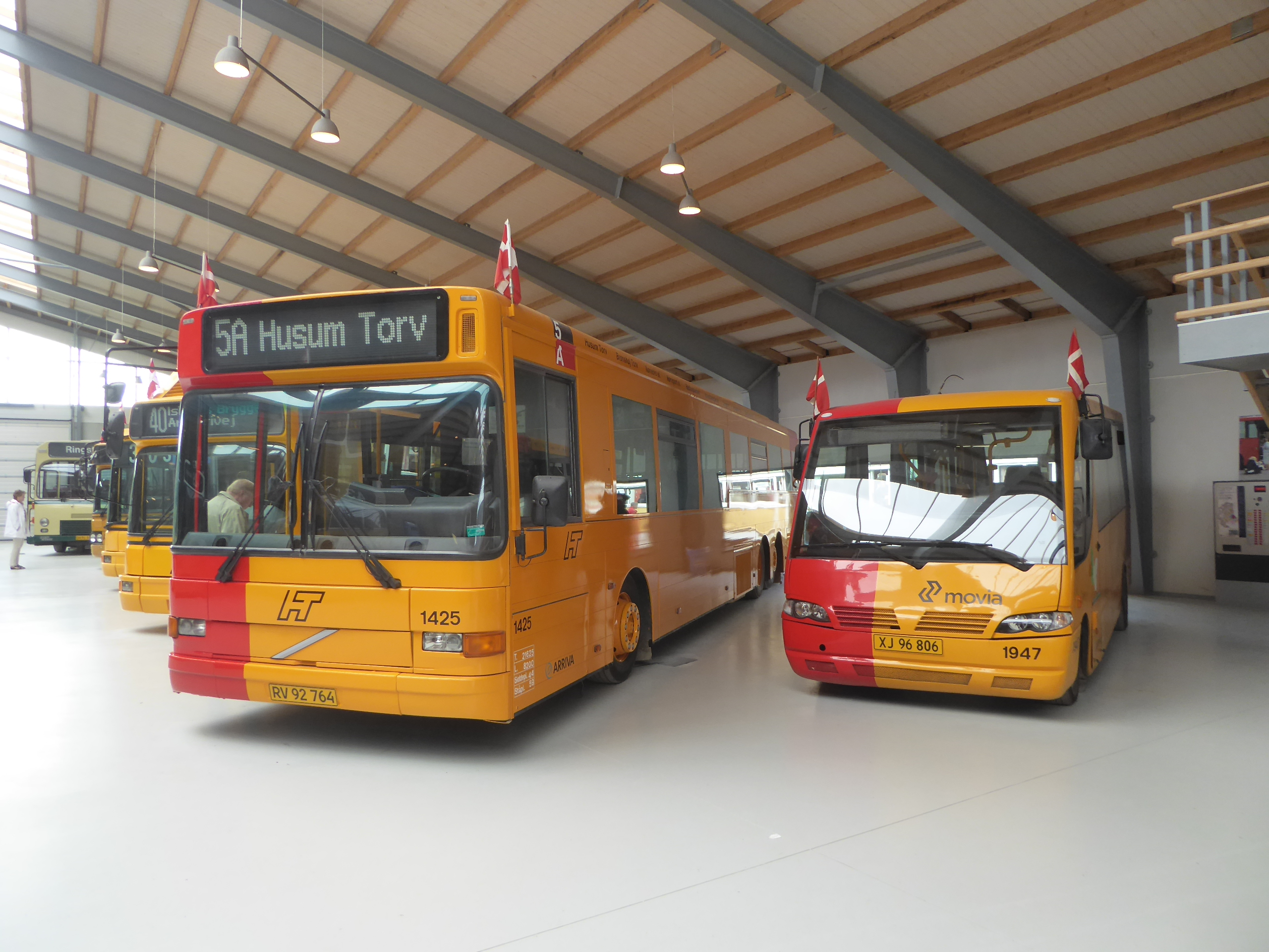 Old buses from Ringsted, Arriva Danmark 1425 build in 2001 and Arriva Danmark 1947 build in 2009, in the new bus exhibition hall at Sporvejsmuseet Skjoldenæsholm in Denmark.